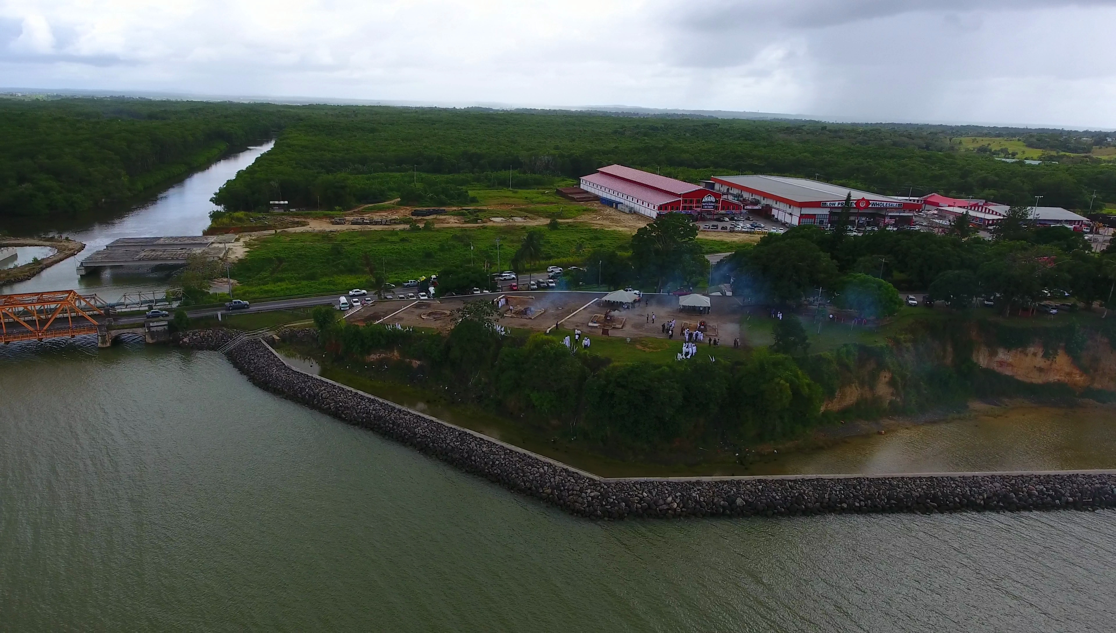 Mosquito Creek Cremation Ground, South Oropouche, Siparia, Trinidad and Tobago. There's a festive cremation going on on this photo. "Mosquito Creek" is not the river (that's Godineau River) but the local name for bypassing Southern Main Road. Photo taken as part of the Southern Trinidad Aerial Photo Project, a small project sponsored by WMDE. Drone used: DJI Phantom 4. Snapshot taken from video footage via VLC.